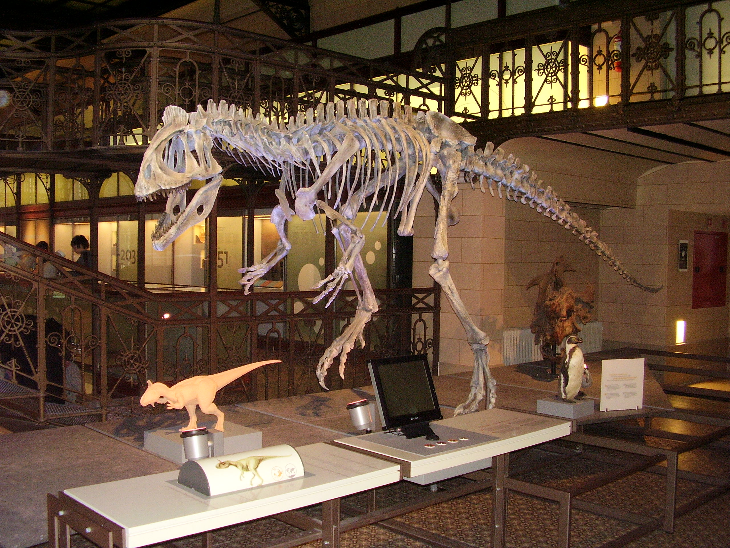 Cryolophosaurus skeleton in Brussels Natural History museum.